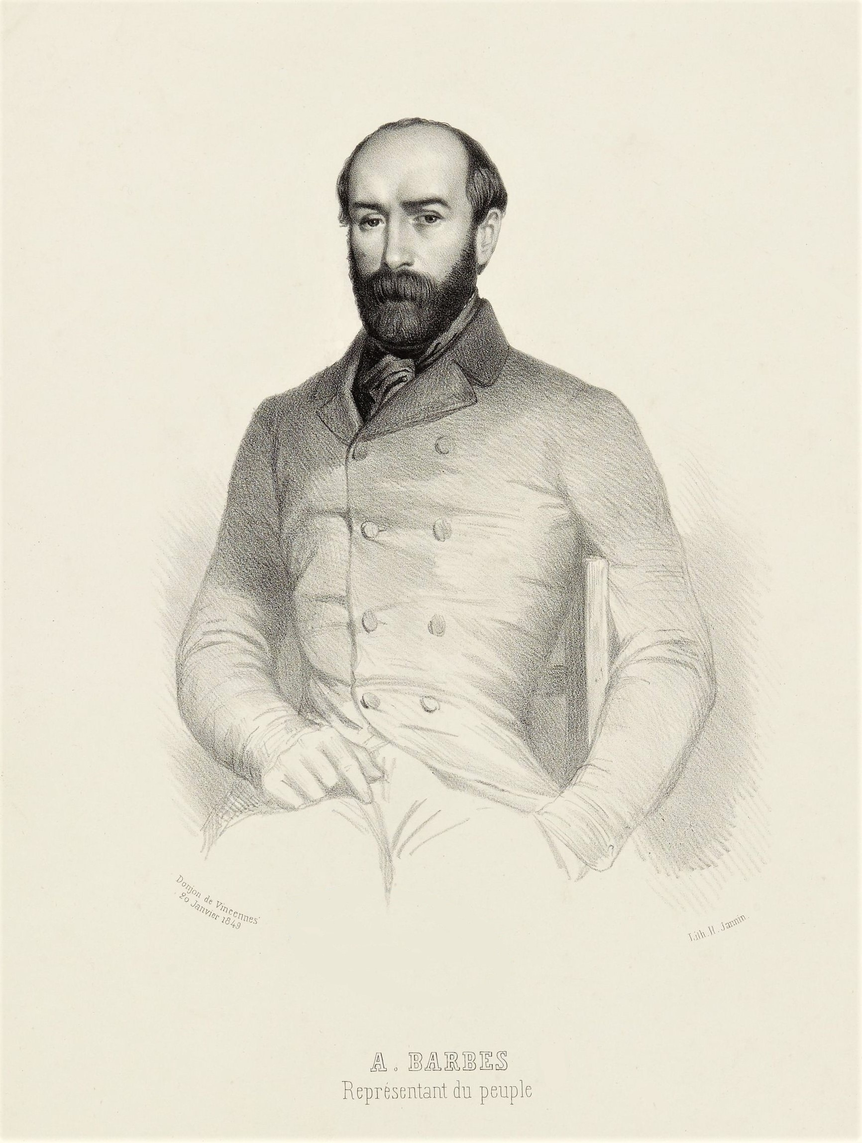 Armand Barbès (1809-1870), French republican leader